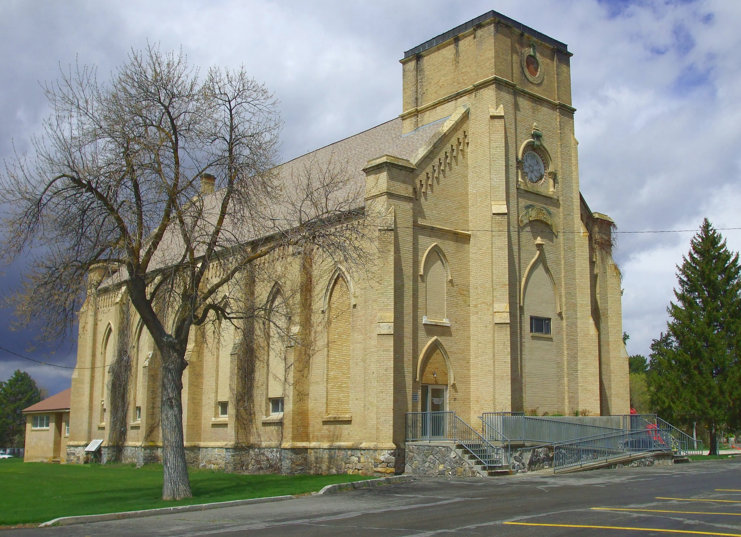 The Smithfield Tabernacle, a historic building in Smithfield, Utah, United States.